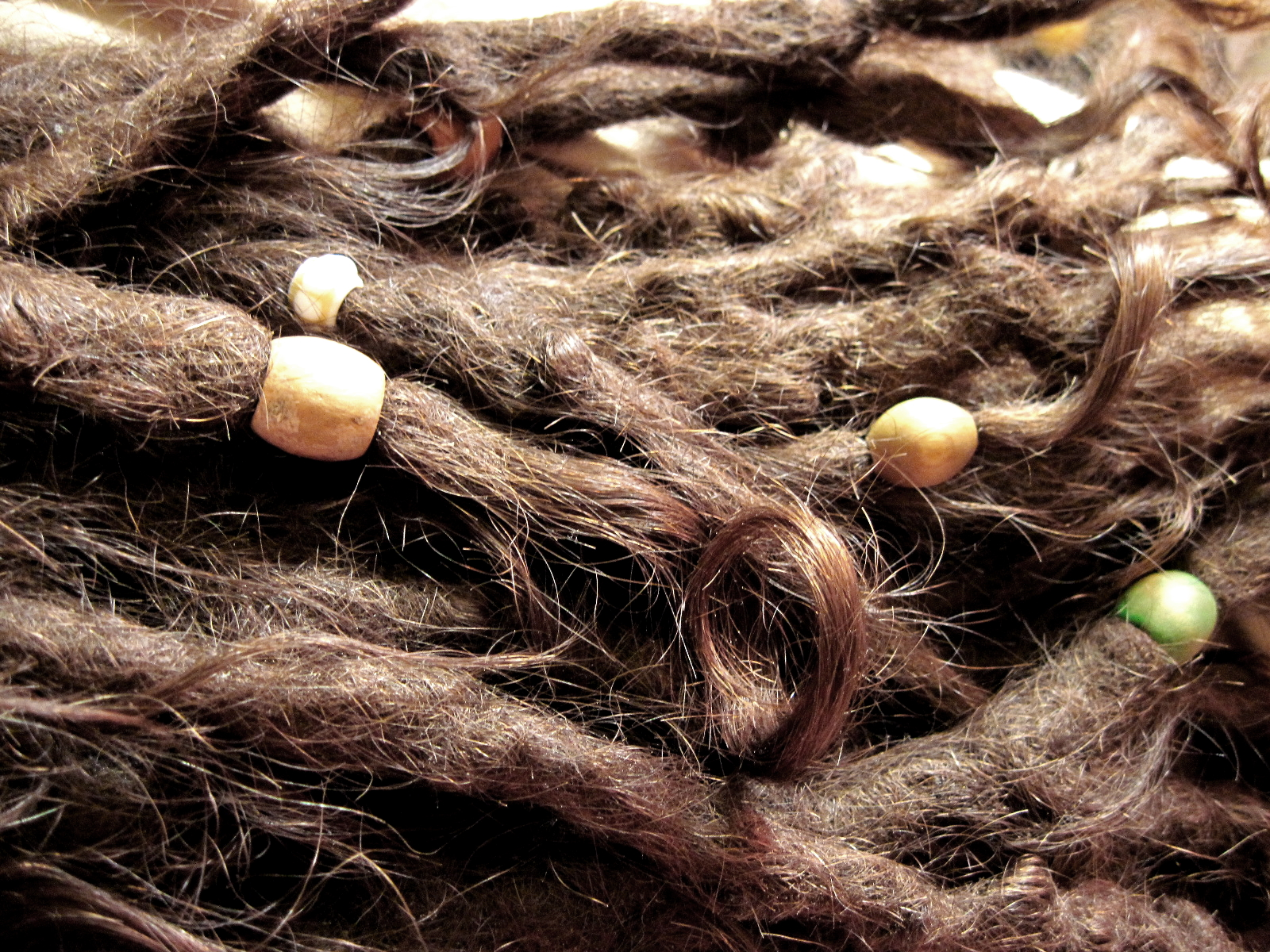 Dreadlocks of a person with Native American and European ancestry, adorned with beads of different shapes and sizes